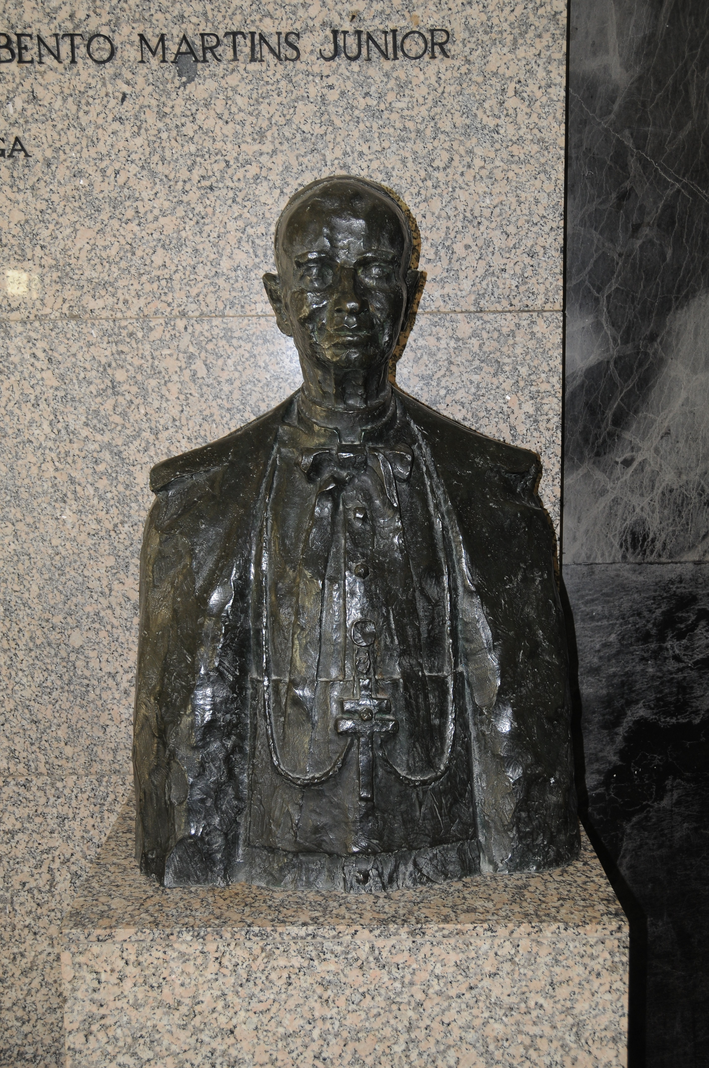 Bust of António Bento Martins Júnior in Braga, Portugal